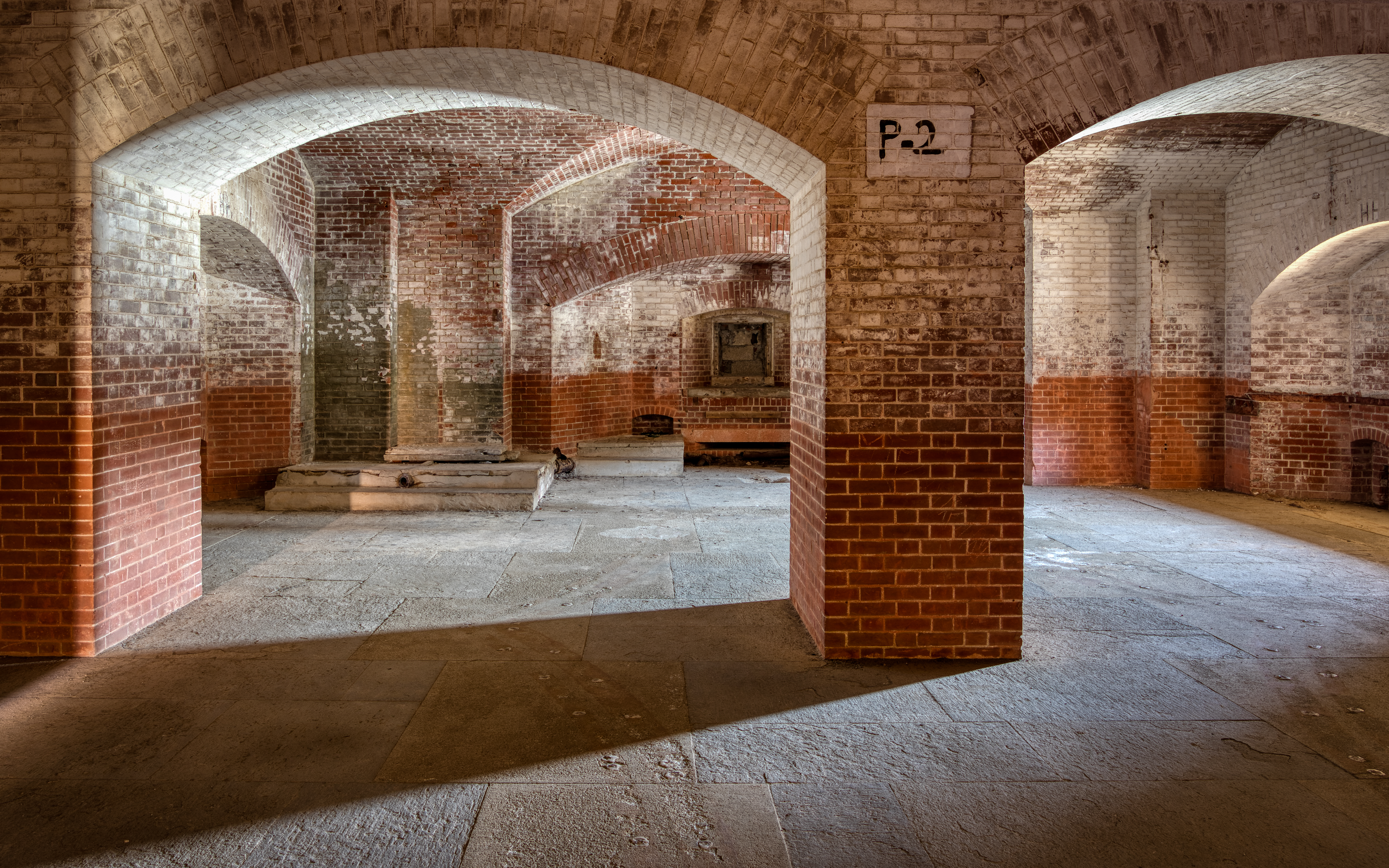 Casemate from the Civil War Era at Fort Point National Historic Site, Presidio of San Francisco, September 2019